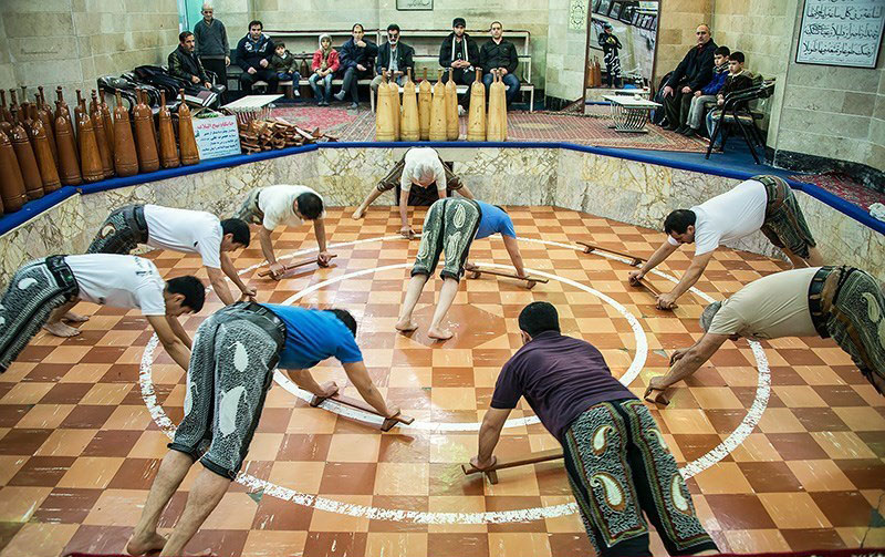 Mashhadi sportpeople in zurkhaneh.